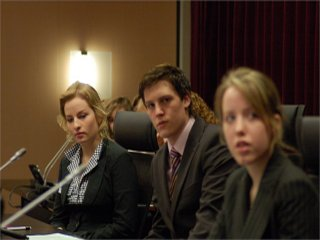 Description Voorzitters en griffier FJP 2007 Date14 February 2007SourceBram BoonstraAuthorBram BoonstraPermission (Reusing this file) Bram Boonstra Voorzitters en griffier FJP 2007